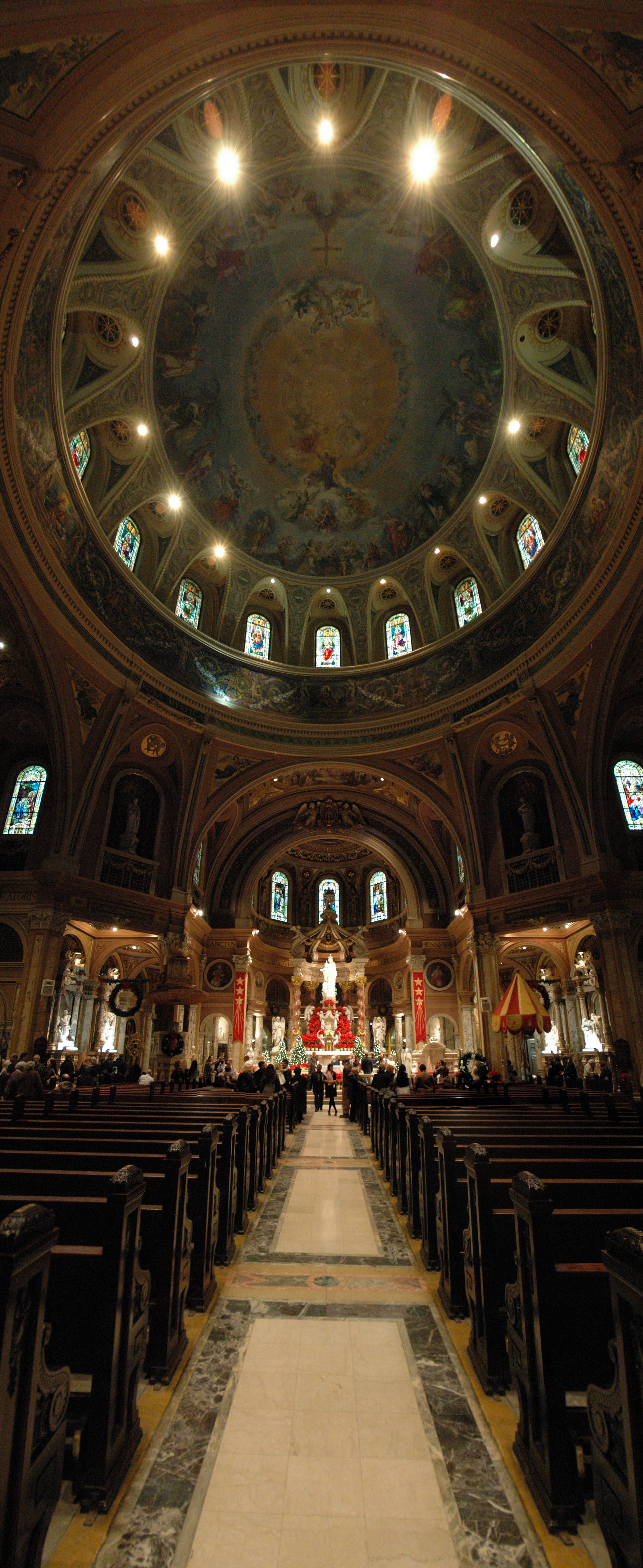 A Panoramic shot of the interior of the Our Lady of Victory Basilica in Lackawana, NY.